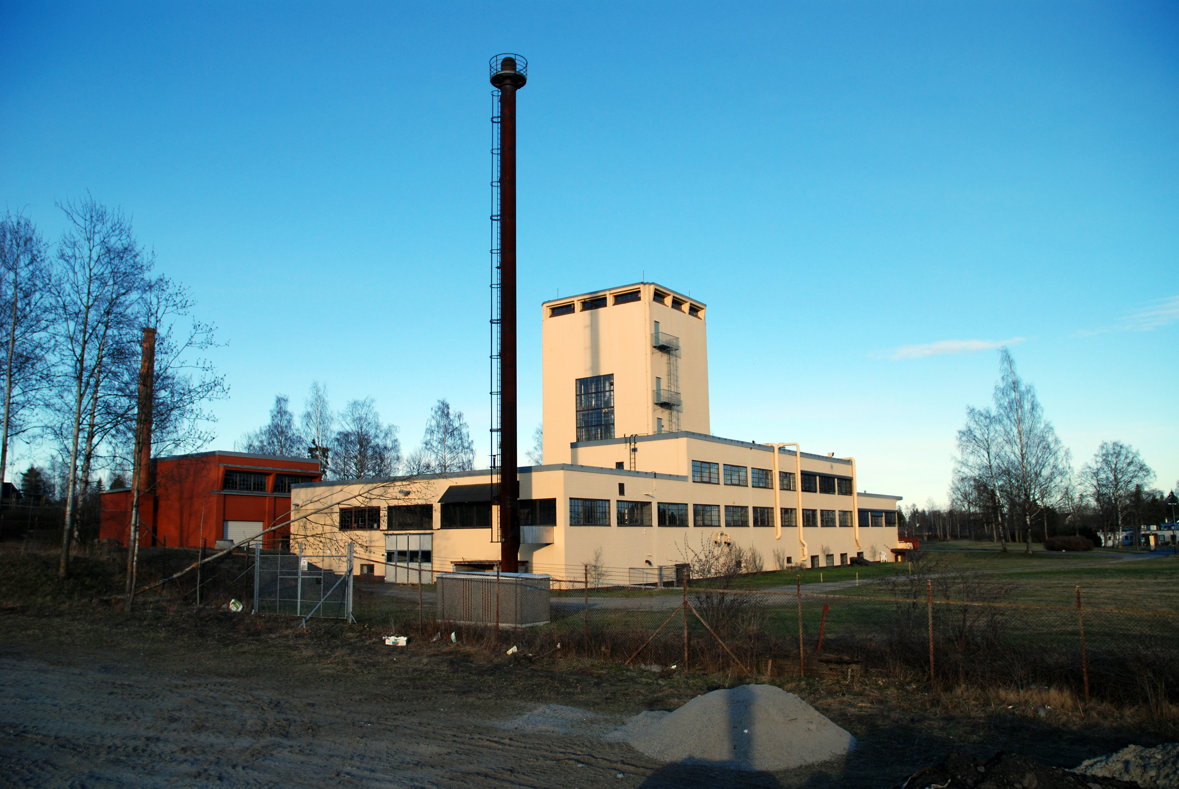 Arcus, in Hamar, Hedmark, Norway. Built 1933. Architect: Otto V. Juell.